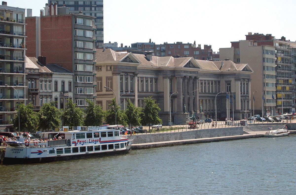 Place: "quai Van Beneden", river's bank, city of Liège, Belgium Quai de la Meuse. The big building is a museum and a part of the university of Liège